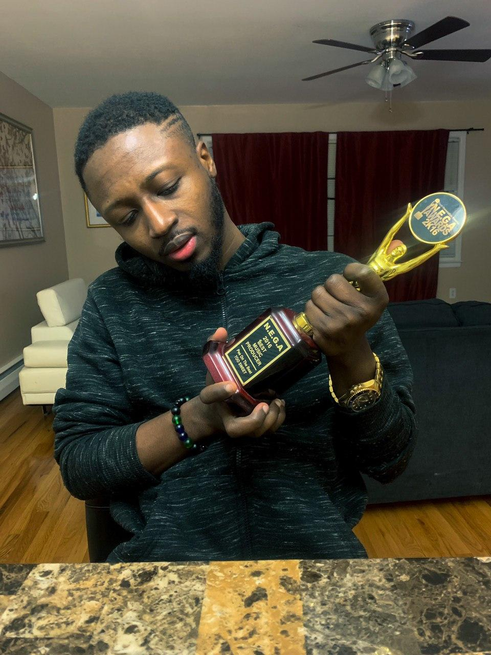 Pee GH with his NEGA Awards 2016 for Producer of the Year